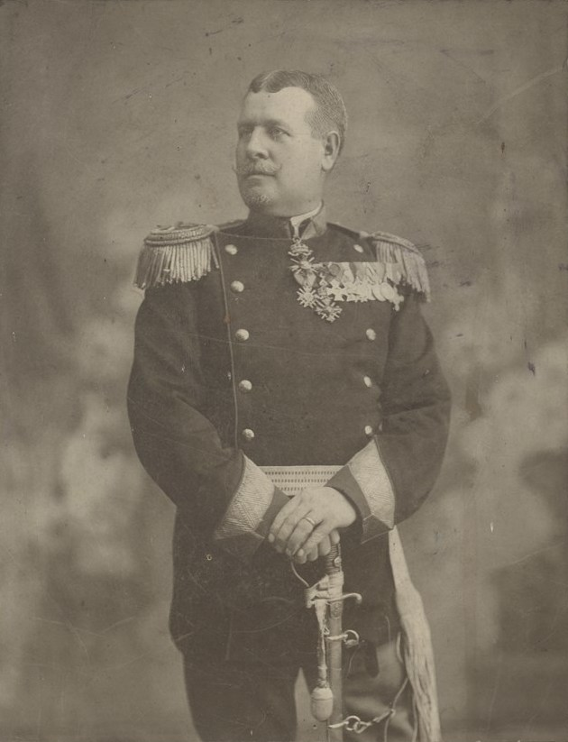 Bulgarian General Vasil Delov in Pazardzhik